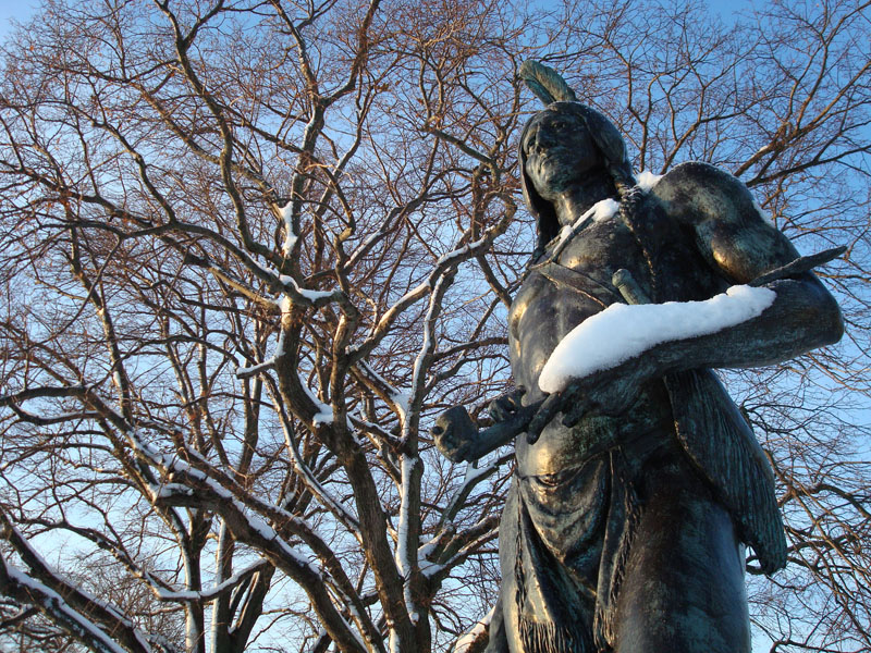 A winter morning photo of the Massasoit statue overlooking the site of Plymouth Rock. Taken by Greg Kullberg /